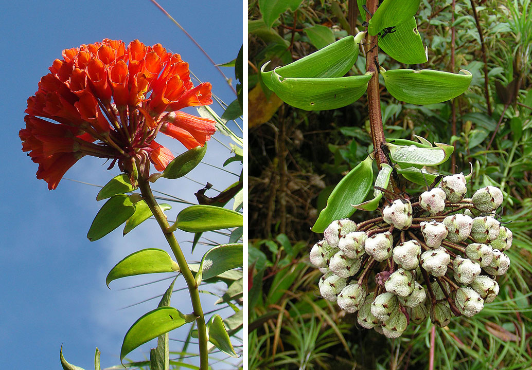 Found in the mountains from Columbia to Peru. Photo from the Condor Range on the Peru-Ecuador border. In context at